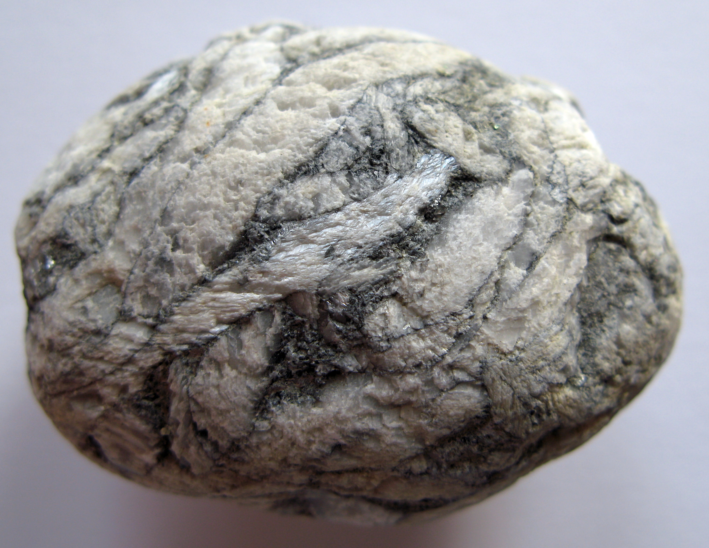 Pinolitmagnesite - Frost flower-magnesite from Tauern/Austria